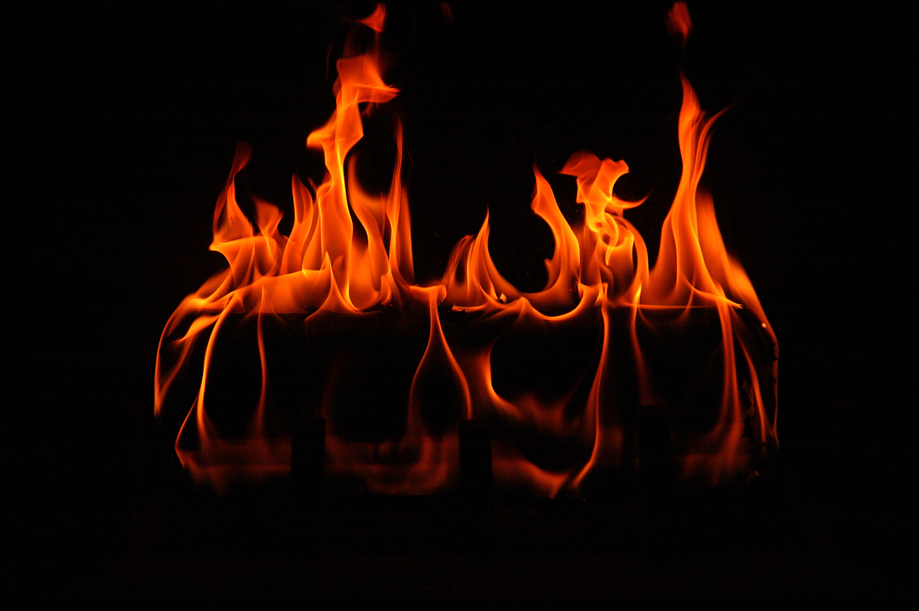 Fireplace. For more translations SEE BELOW